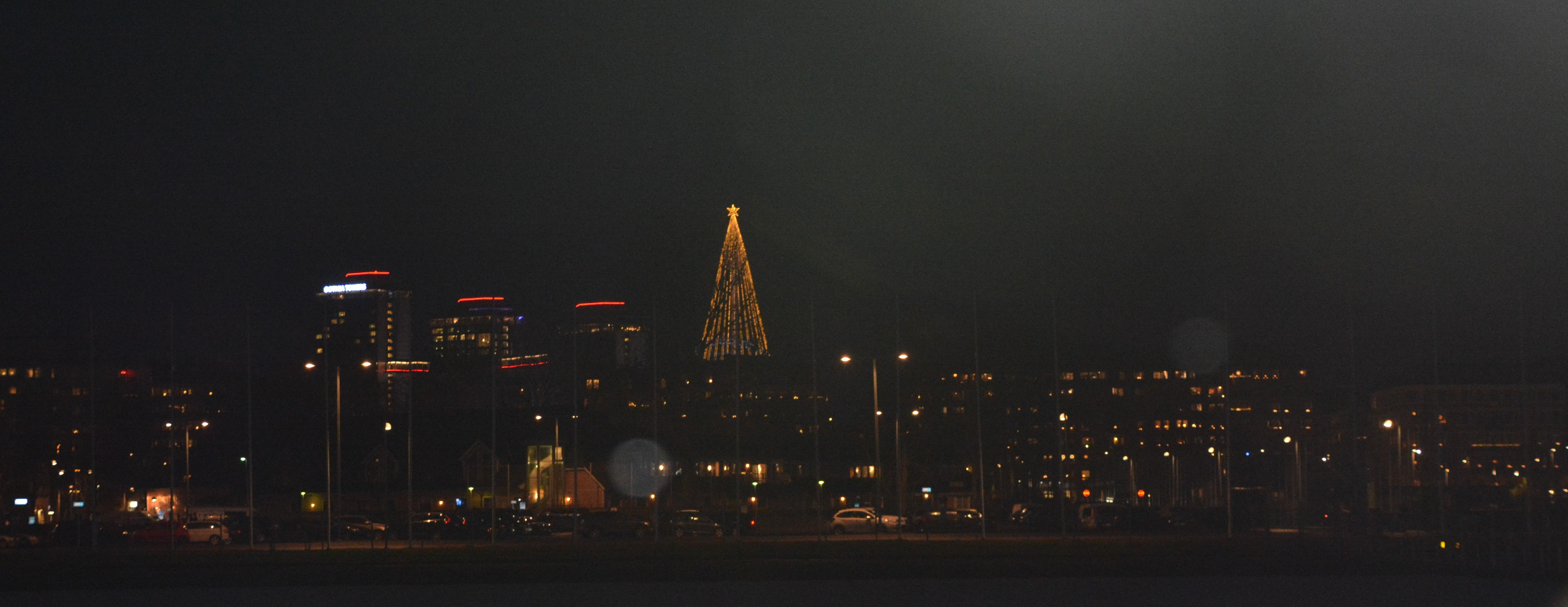 Christmas tree at Liseberg, Göteborg, Sweden.